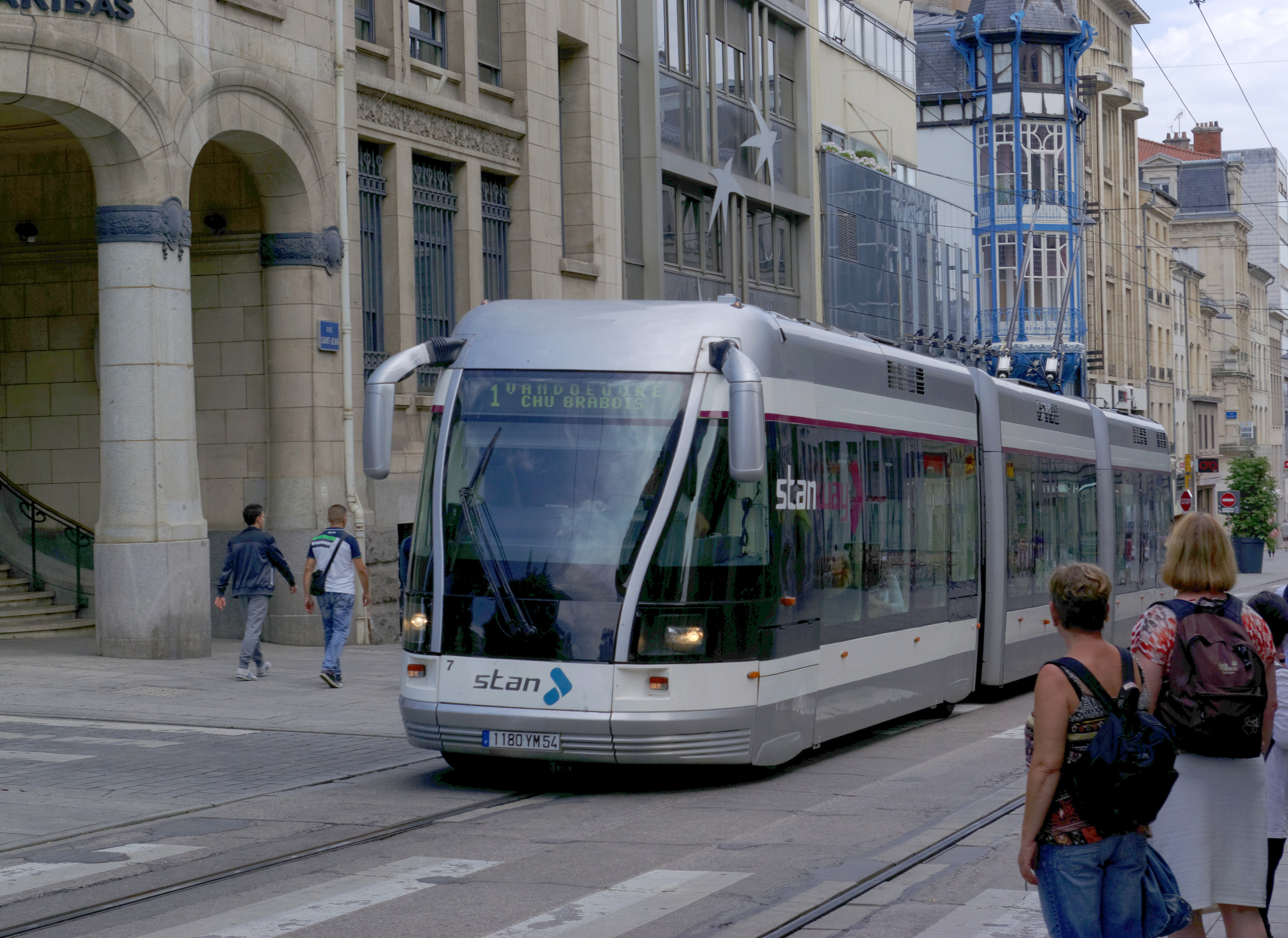 France, Nancy, tram "stan"